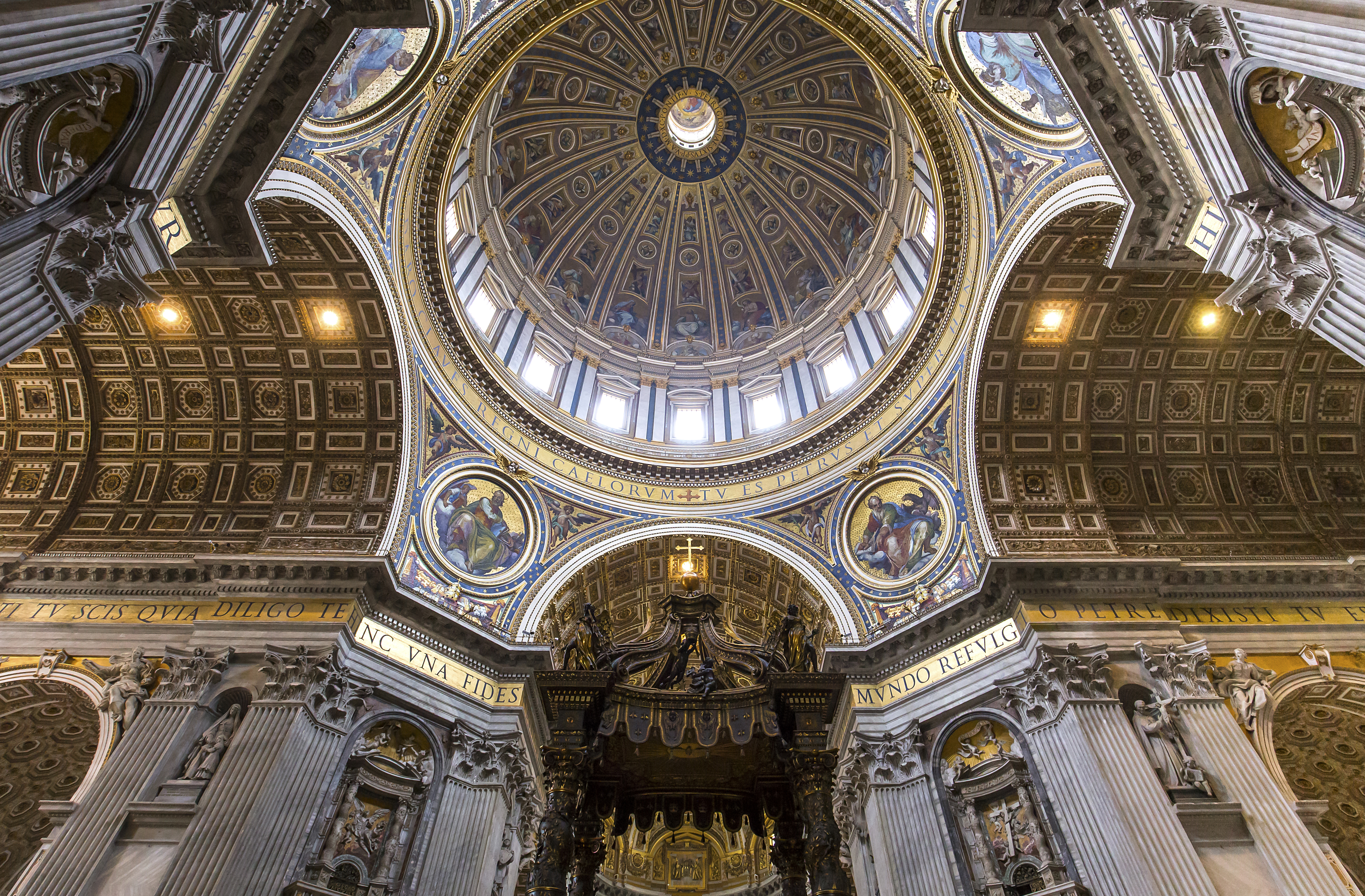 architectural details of the dome at Saint Peter's Basilica in Vatican city, Vatican